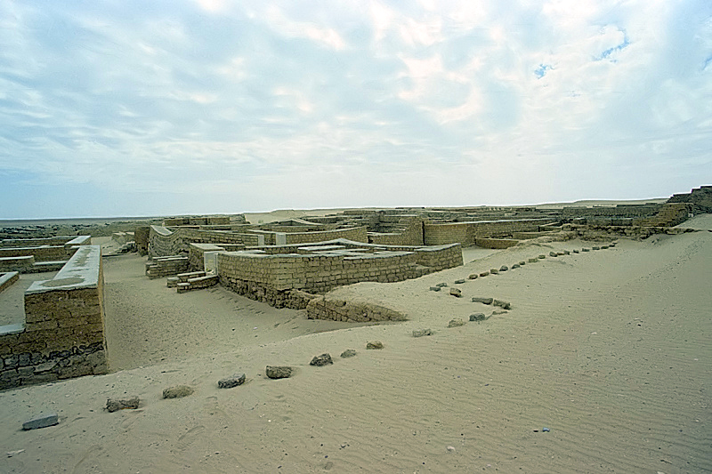 Settlement, Umm el-Burigat (Tebtunis), el-Fayyum, Egypt